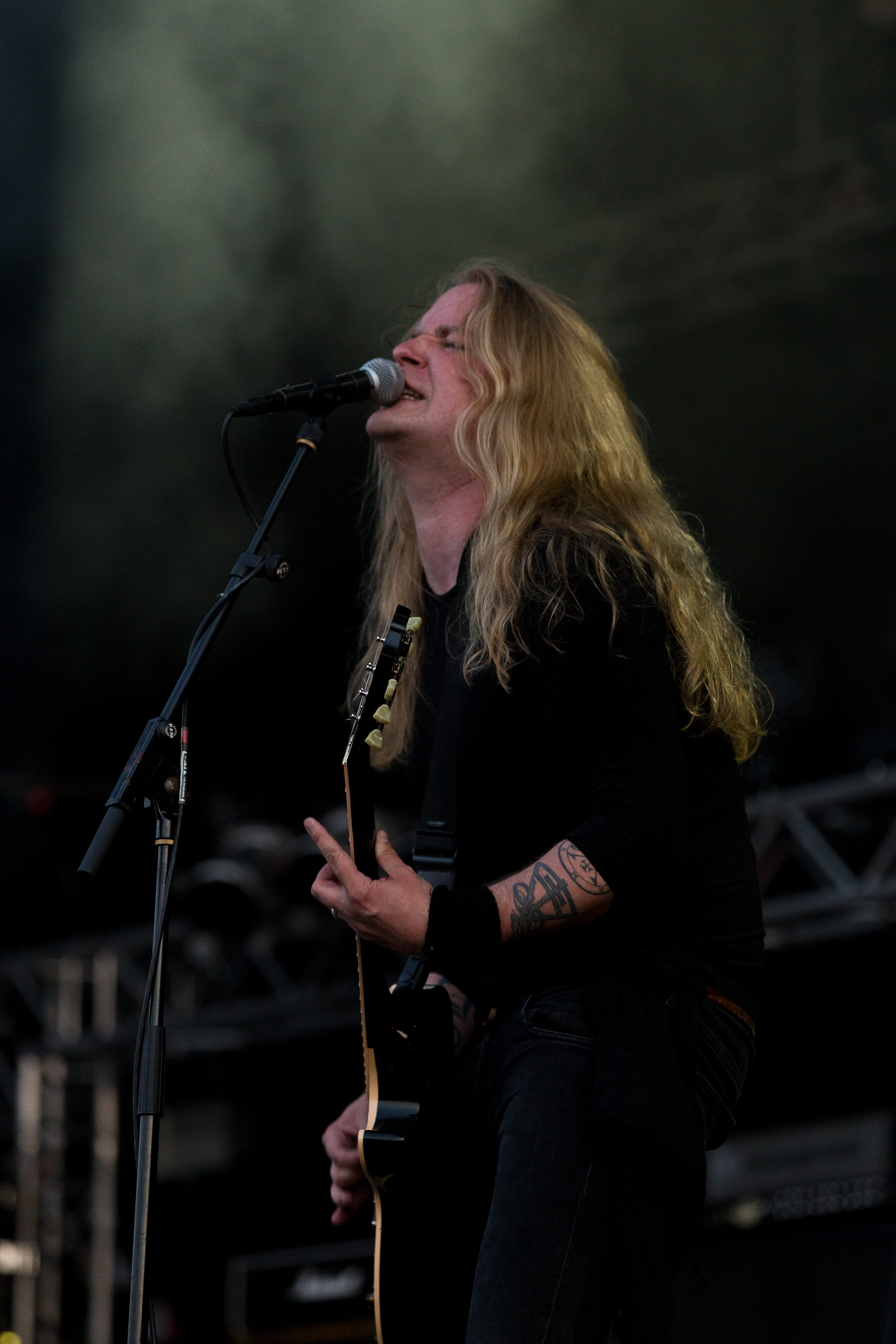 The German black metal band Secrets of the Moon at the Party.San Open Air 2015 in Obermehler-Schlotheim/Germany.